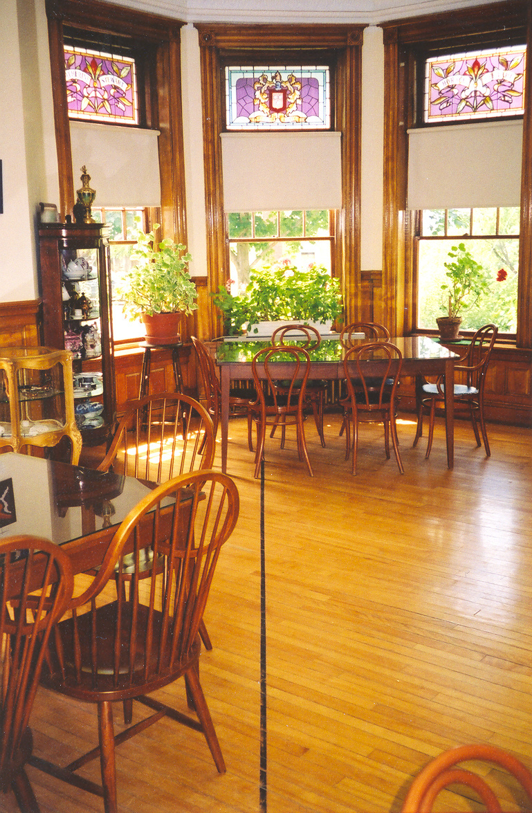 International border runs through the Haskell Free Library and Opera House, Derby Line VT/Stanstead QC.